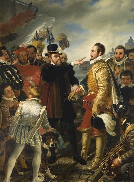 Upon his departure from the Netherlands in 1559 Philip II of Spain accuses William of Orange to personally lead the resistance against the king by the nobility. The act takes place on a jetty with the king and his retinue on the left and in the background the sails of his ship. The king grabs the hand of the prince, while pointing his finger towards him. The prince stands to the right holding his hat in his hand, accompanied by his retinue. On the foreground a Spanish soldier is kneeling holding a box. To the left two boys and a dog.